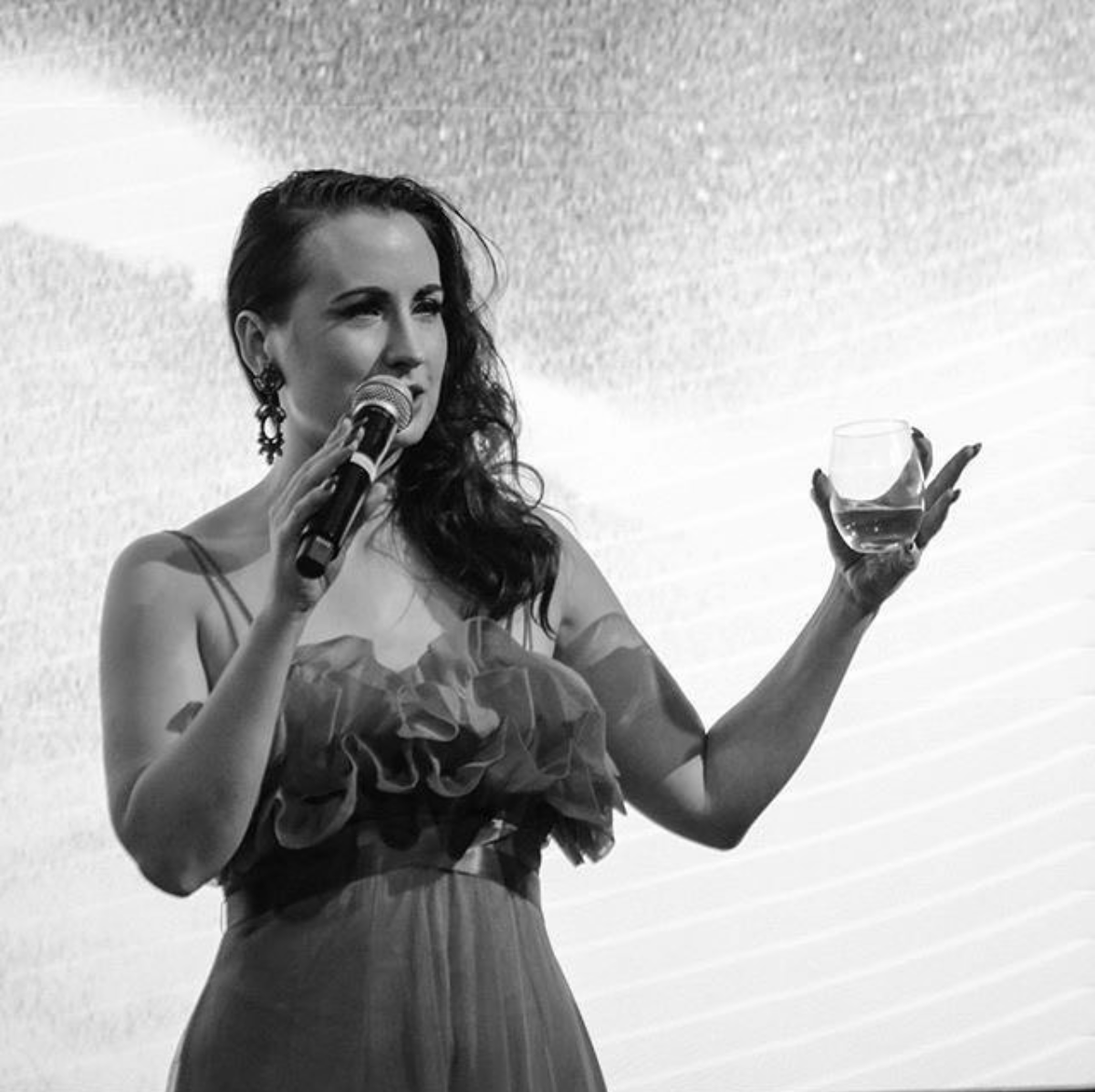 Writer and Performer Millicent Binks talking about her film MP rumPy pumPy at Samsung KX